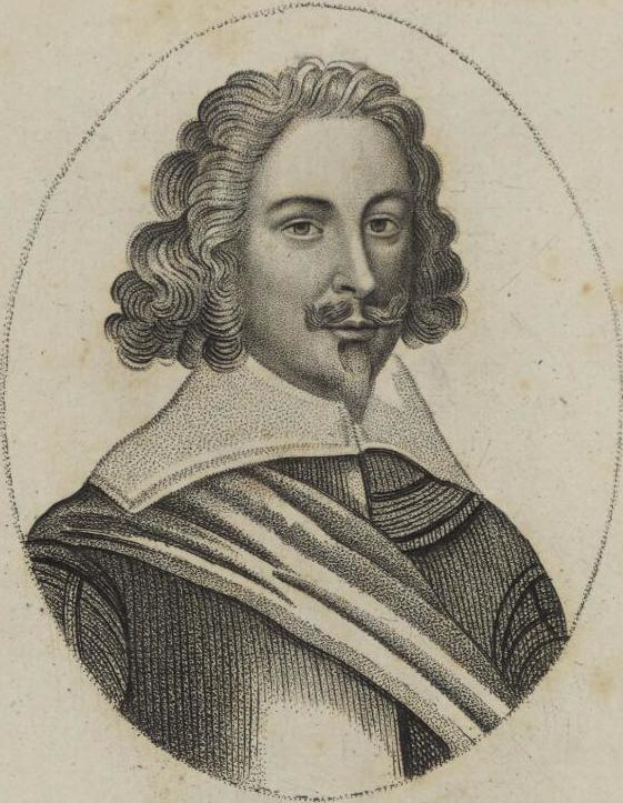 A portrait from the Welsh Portrait Collection at the National Library of Wales. Depicted person: Rowland Laugharne – Welsh-born English soldier